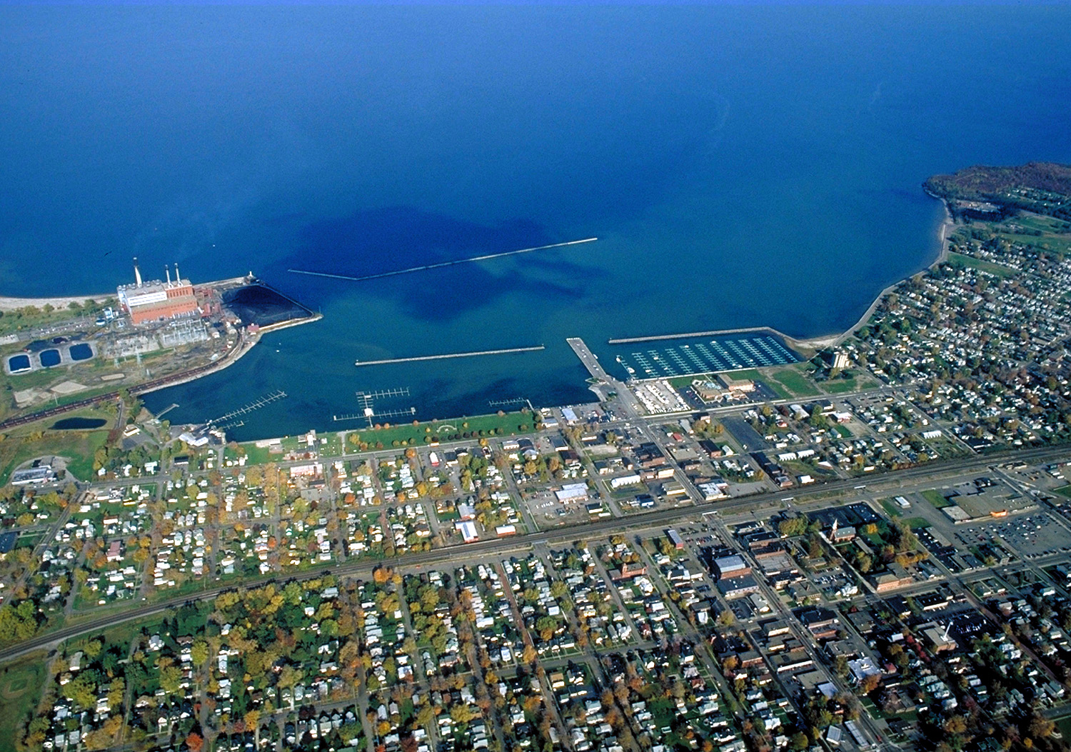 Aerial view of Dunkirk, New York, USA. View is to the north over Lake Erie. The large Niagara Mohak power plant can be seen at left.